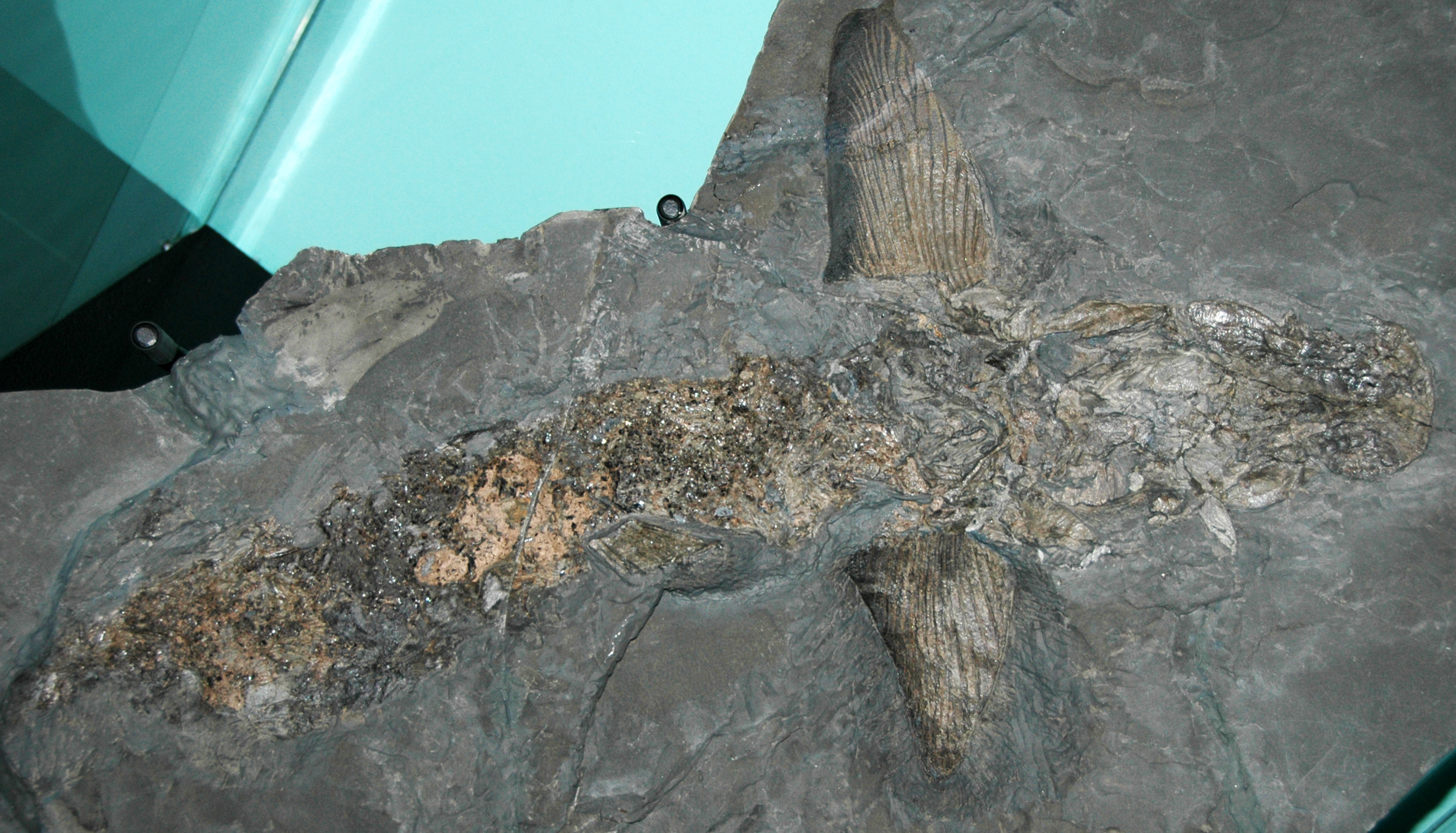 Cladoselache fyleri (Newberry, 1889) - fossil shark from the Devonian of Ohio, USA. (CMC VP7204, Cincinnati Museum of Natural History & Science, Cincinnati, Ohio, USA) From museum signage: An early shark (Cladoselache fyleri) The Upper Devonian Ohio Shale is internationally famous for the exquisitely-preserved vertebrates that it contains. Here, an early shark is preserved from snout to tail, showing the top of the head, the two pectoral fins with their supporting cartilaginous rays, a dorsal fin, and the complete body outline. Contained in the body of the shark are the remains of its last meal - the shiny rhomboidal scales of a paleoniscoid fish. Classification: Animalia, Chordata, Vertebrata, Chondrichthyes, Cladoselachiformes, Cladoselachidae Stratigraphy: Cleveland Shale Member, upper Ohio Shale, Famennian Stage, upper Upper Devonian Locality: unrecorded/undisclosed site at or near the town of Brooklyn, Cleveland urban area, Cuyahoga County, northeastern Ohio, USA See info. at